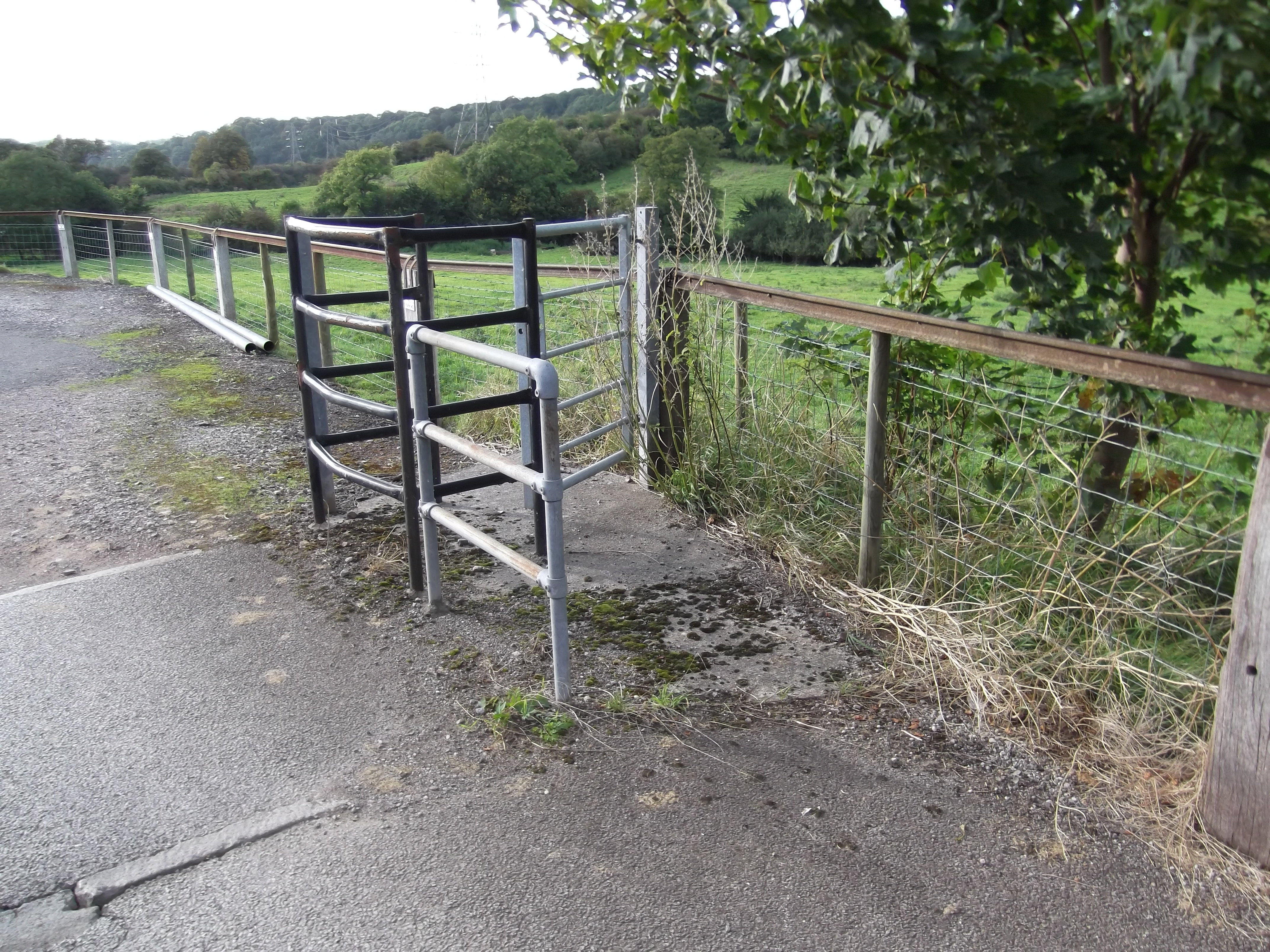 Old rails in use as fencing at Londonderry Farm near Bitton, UK